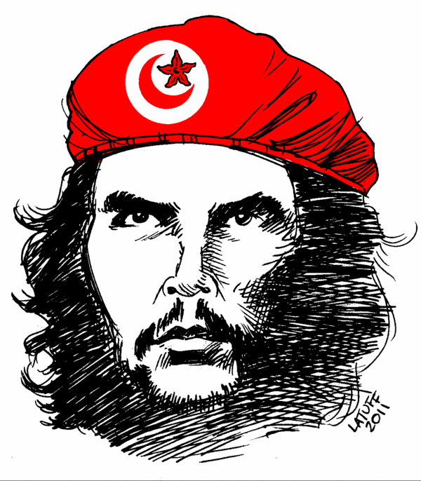 A political cartoon on the Tunisian revolution by Carlos Latuff depicting the revolutionary Che Guevara in his Guerrillero Heroico pose (a popular global symbol of rebellion), but with the Tunisian flag on his beret instead of his usual red star.